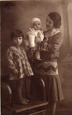 En brazos de su madre Antonietta y con su hermana Sandra